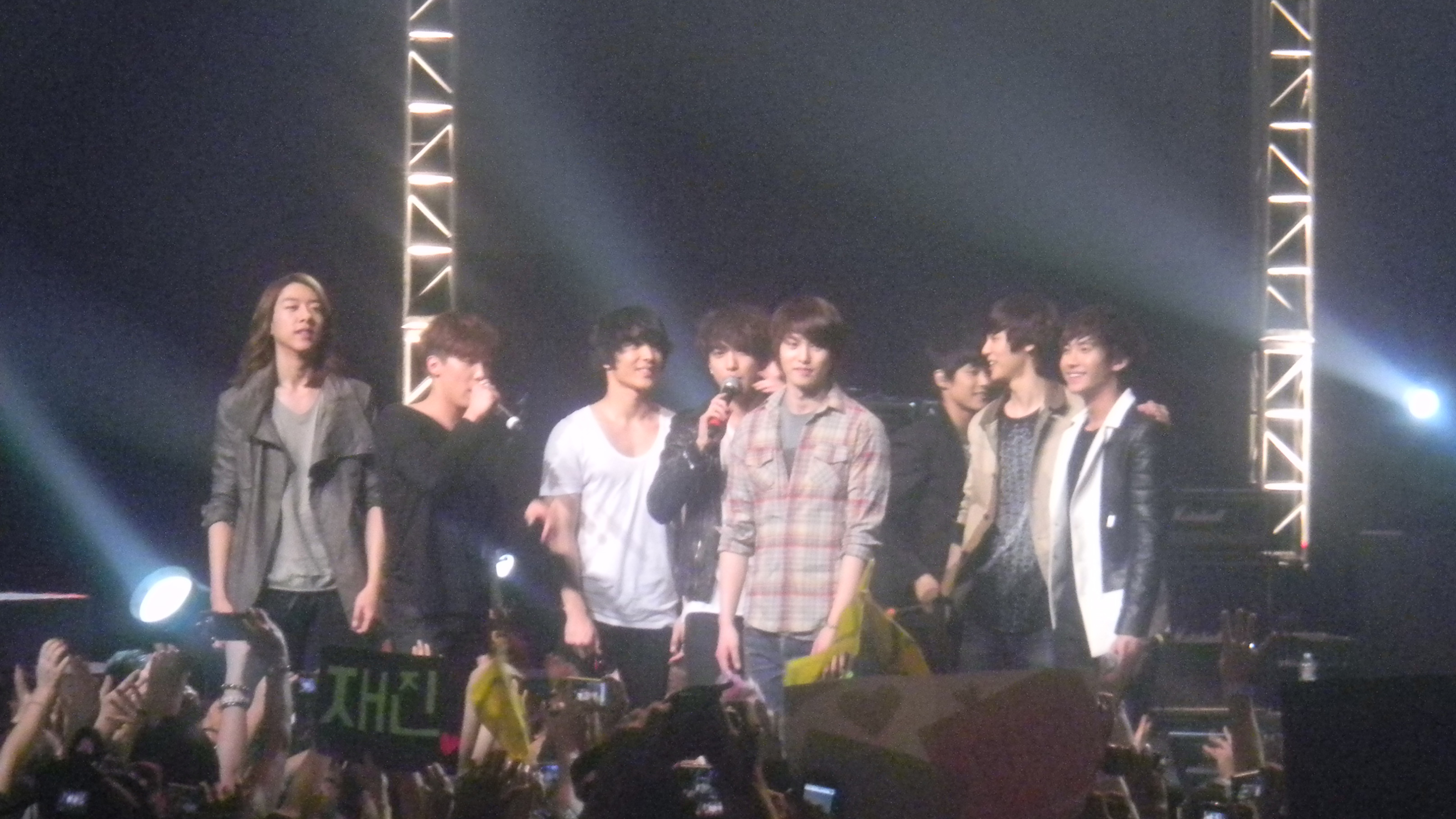 South Korean rock bands CN Blue and F.T. Island at the end of their Stand Up concert, bidding farewell to their American fans in Los Angeles, California, at Nokia Theatre L.A. Live on March 9, 2012.I originally uploaded the image at Flickr under my account DiverseMentality (this was my original username on both the English Wikipedia and Commons). I cropped the original image to focus on the subjects. There, it is also licensed under Creative Commons, Attribution and Share Alike.